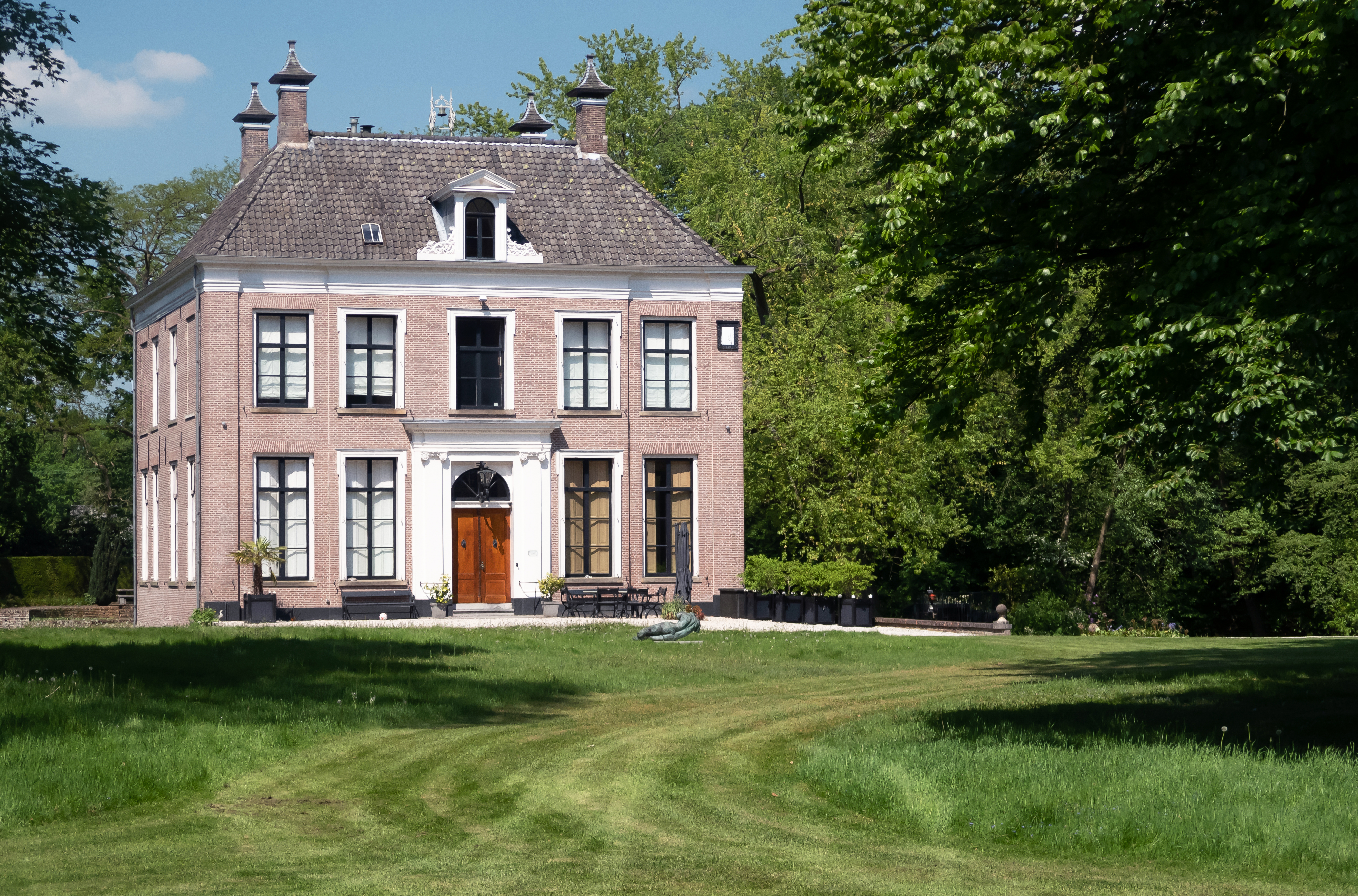 Twello, castle: Huize het Holthuis